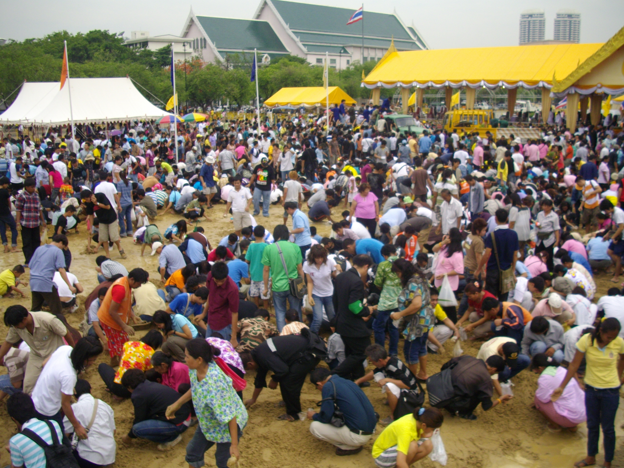 Thai people find the rice after the Royal Ploughing Ceremony at Sanam Luang, Bangkok, 11 May 2009.